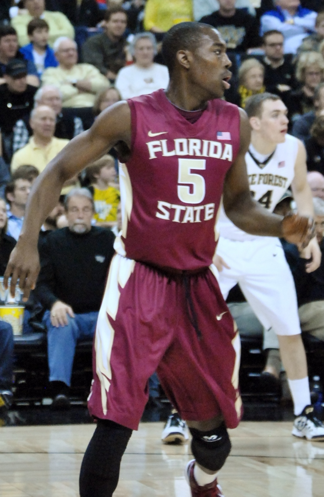 Codi Miller _McIntyre and Montay Brandon working hard at the Joel Coliseum